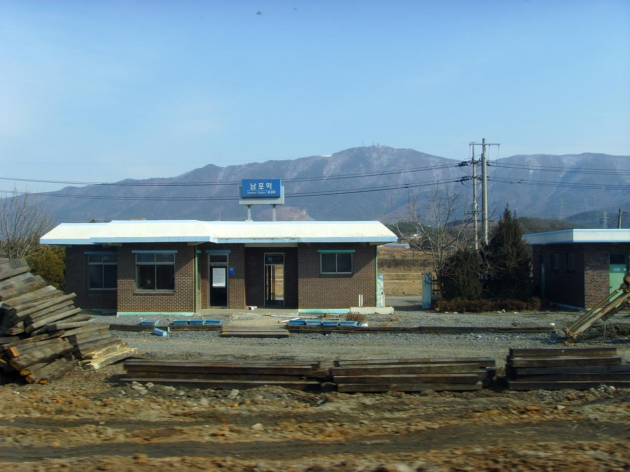 Janghang Line Nampo Station (Bongdeok-ri, Nampo-myeon, Boryeong, Chungcheongnam-do, South Korea)